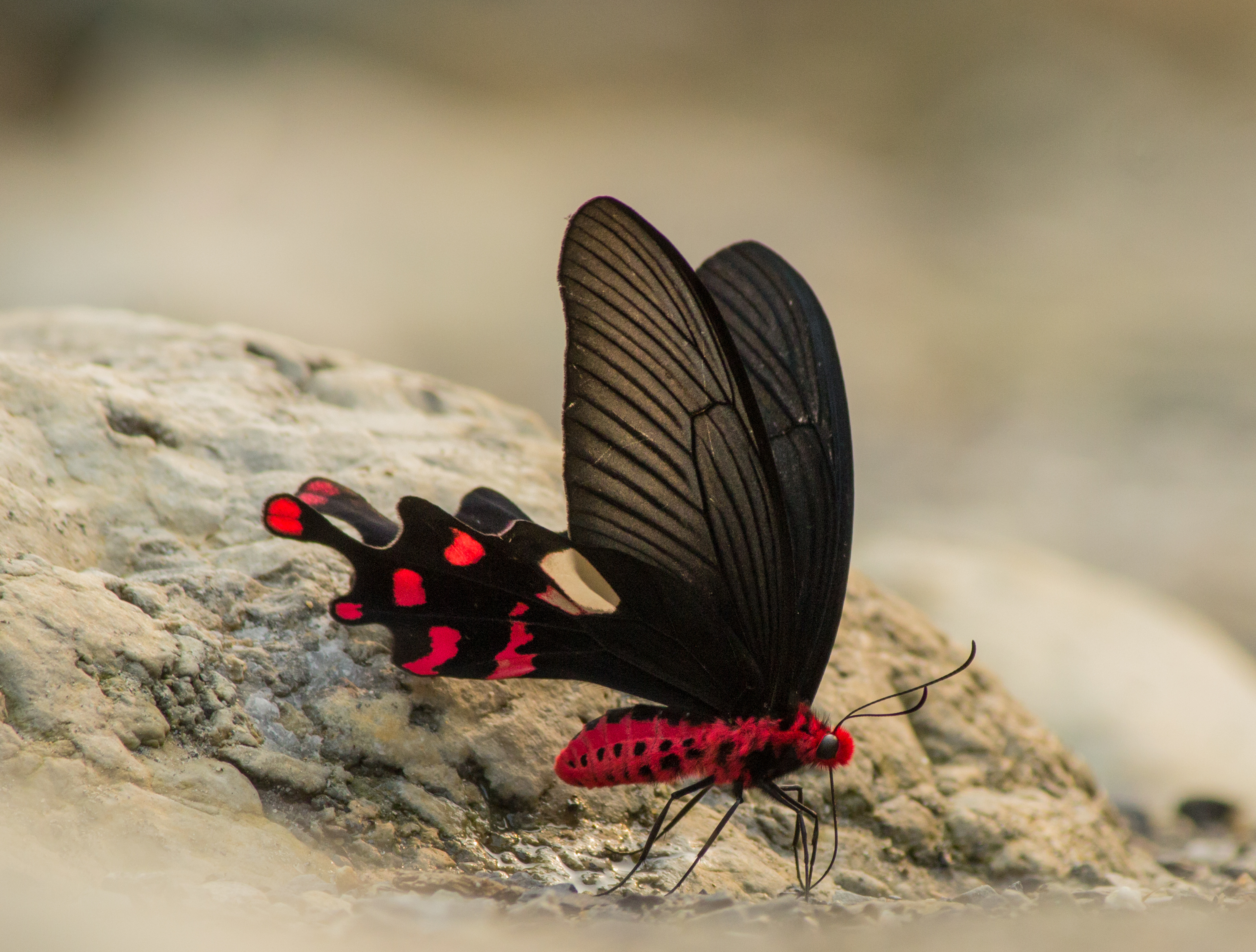 This is a photograph taken at Jayanti River Bed, Buxa Tiger Reserve. Close wing position of Byasa polyeuctes Doubleday, 1842 – Common Windmill